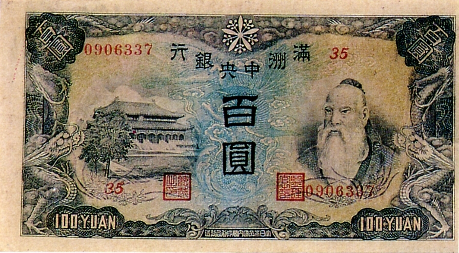 Manchuguo 100-yuan banknote, observe side